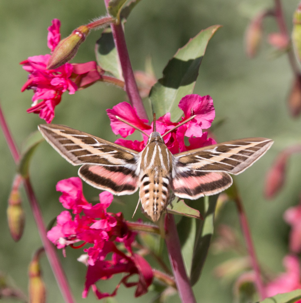 White Lined Sphinx Moth on Clarkia Eligans, which is a host plant for this species